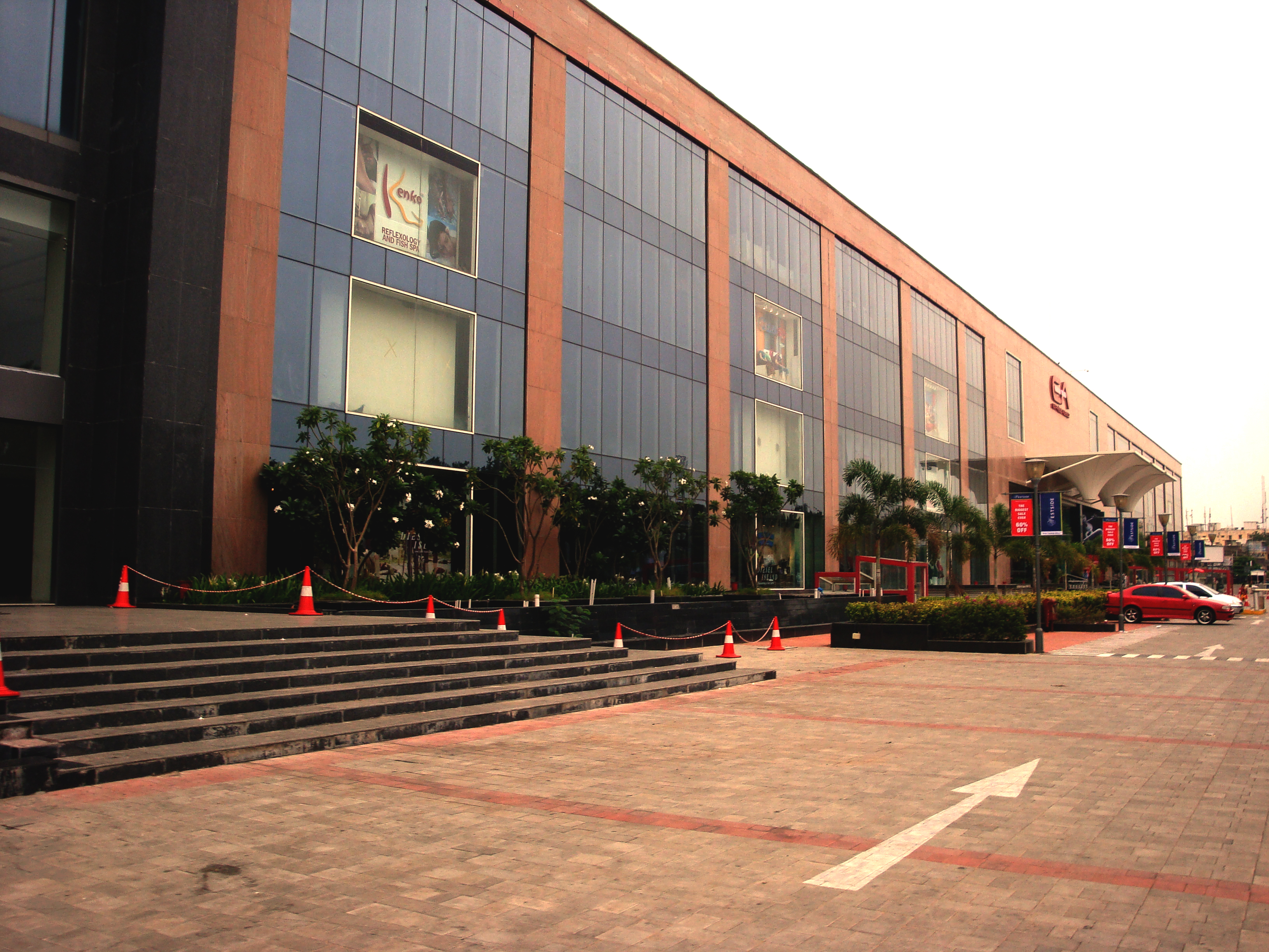 Having a retail area of around 900,000 sq ft, it is the largest shopping mall in the city of Chennai. It has around 210 stores including stores of many leading international brands. The mall has the largest gaming zone in South India. The eight screen multiplex housed in the mall has a seating capacity of around 1300. Apart from shopping and entertainment zones, it also houses a five star hotel and a business chamber.